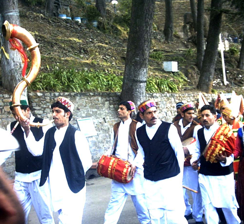 A folk procession in Shimla